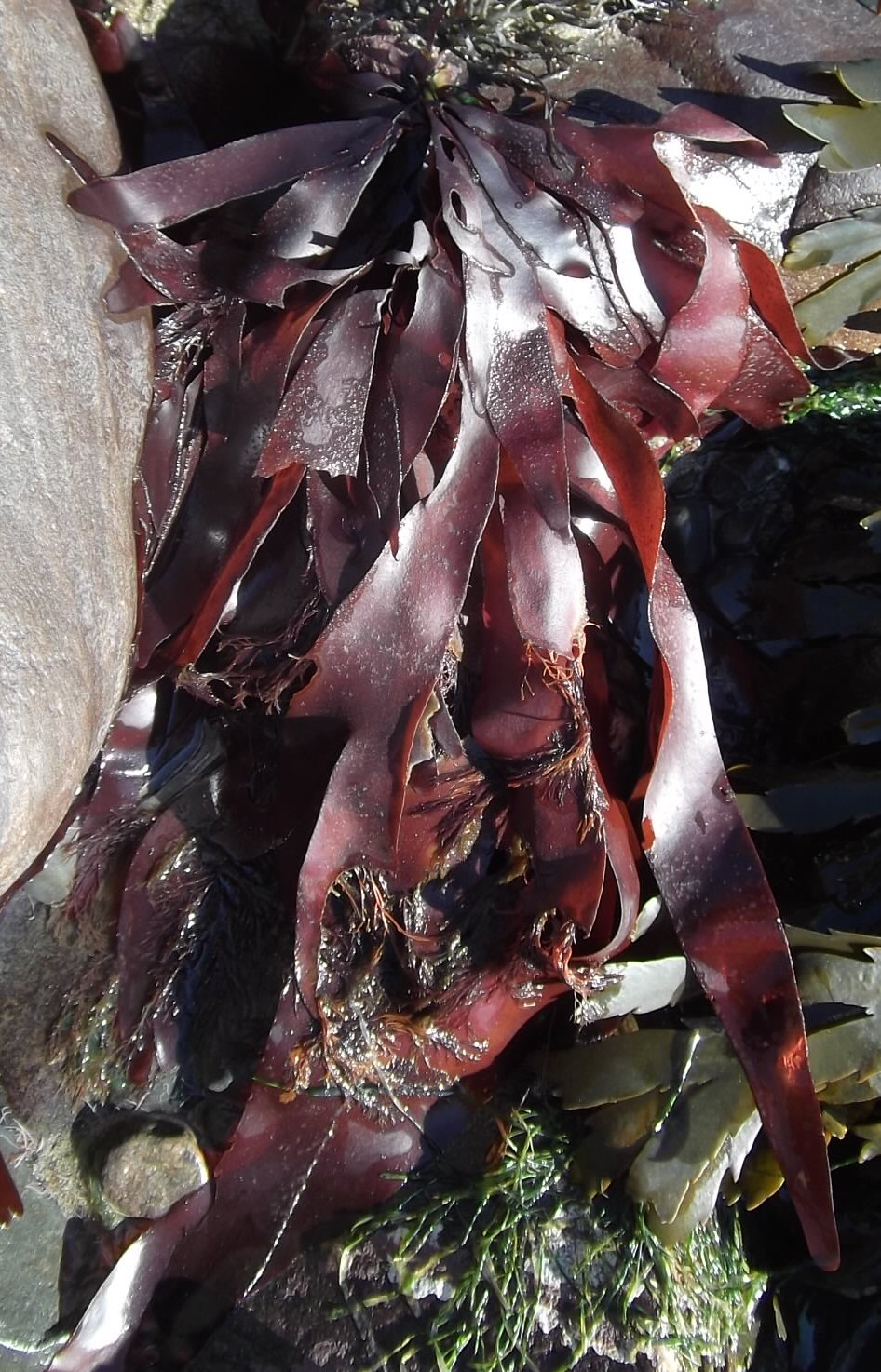 Palmaria palmata at Gilfach yr Halen, Ceredigion, Wales.